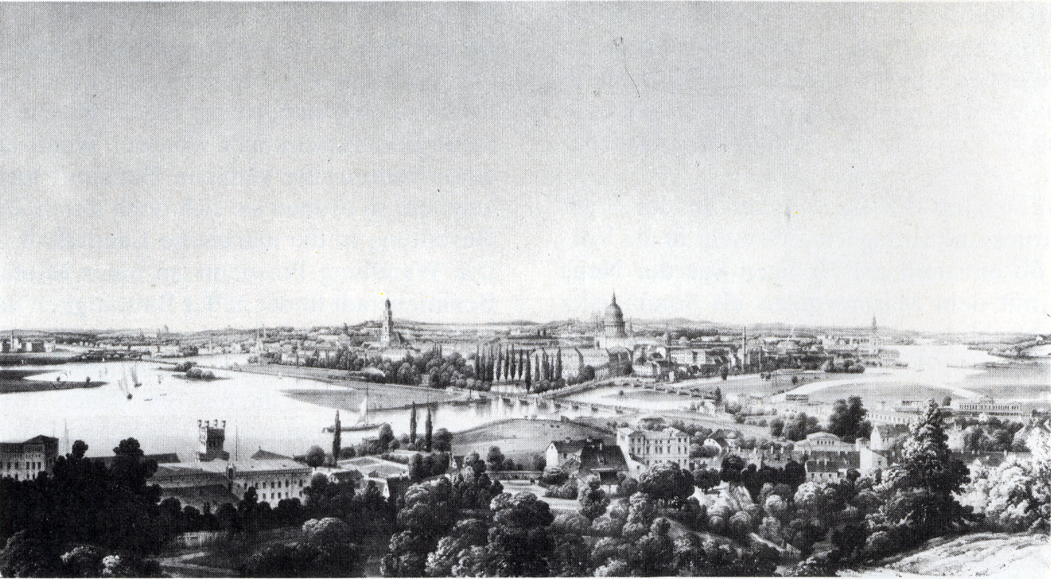 Panorama of Potsdam, seen from Brauhausberg hill; feebly visible: the railroad bridge across Havel river, behind it the Lange Brücke road bridge, right of both near the edge of the image the raliway station building in classicist style